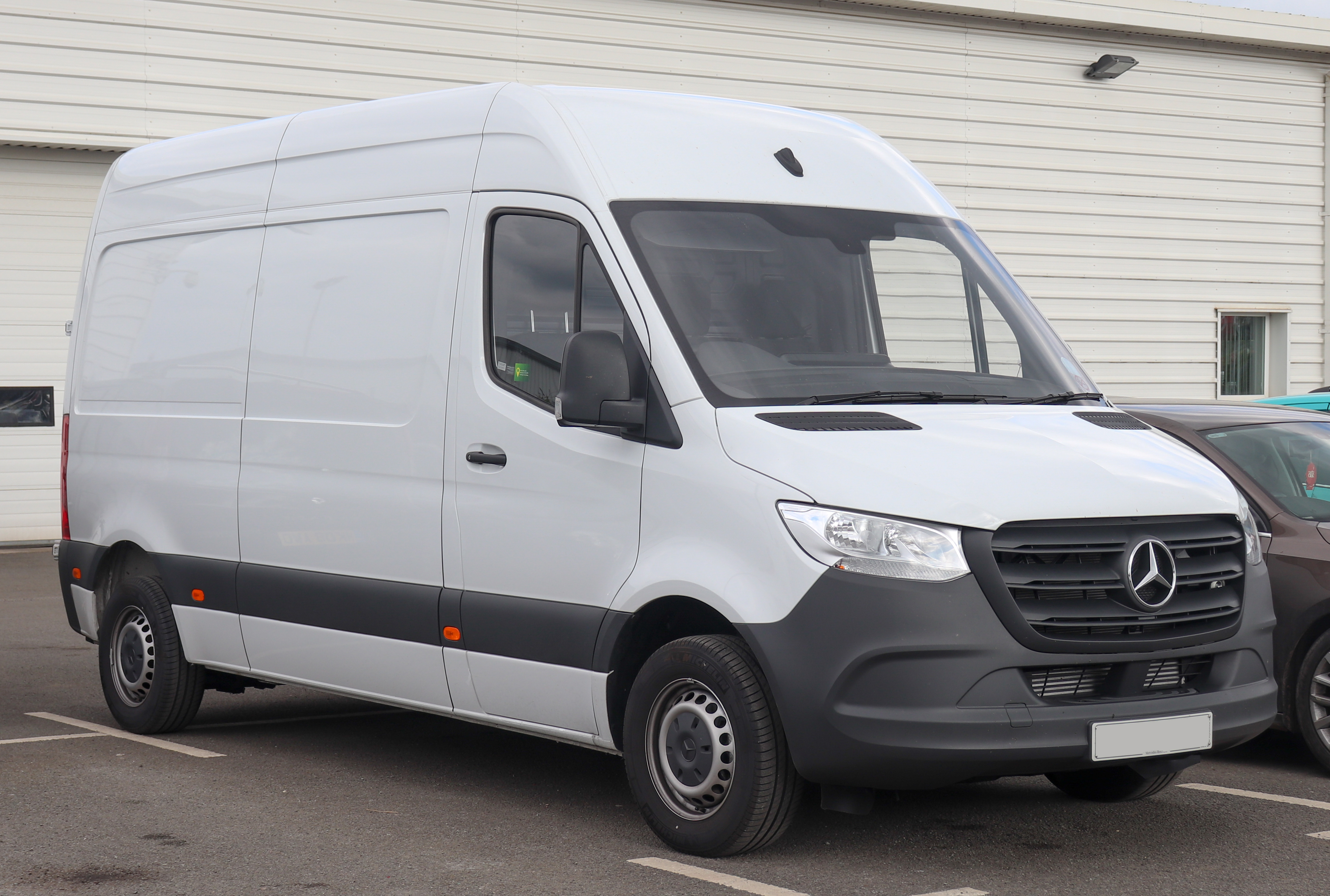 2019 Mercedes-Benz Sprinter 314 CDi 2.1 Taken in Leamington Spa